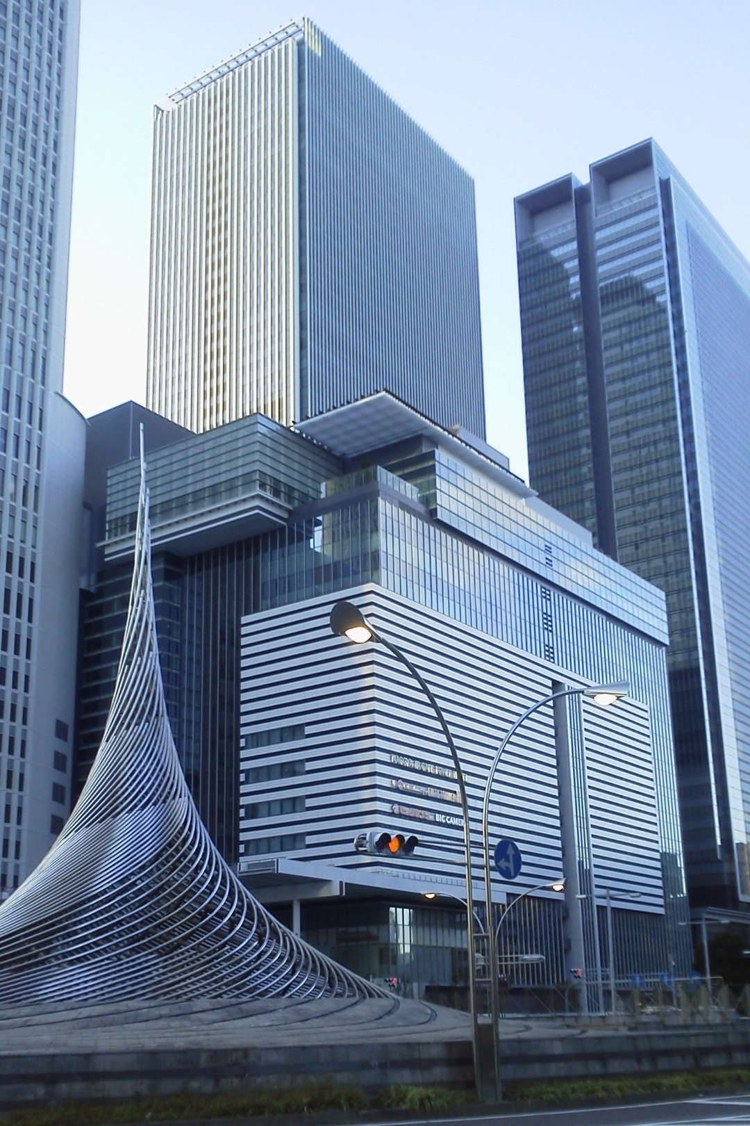 JR Gate Tower in Nakamura-ku, Nagoya, Aichi